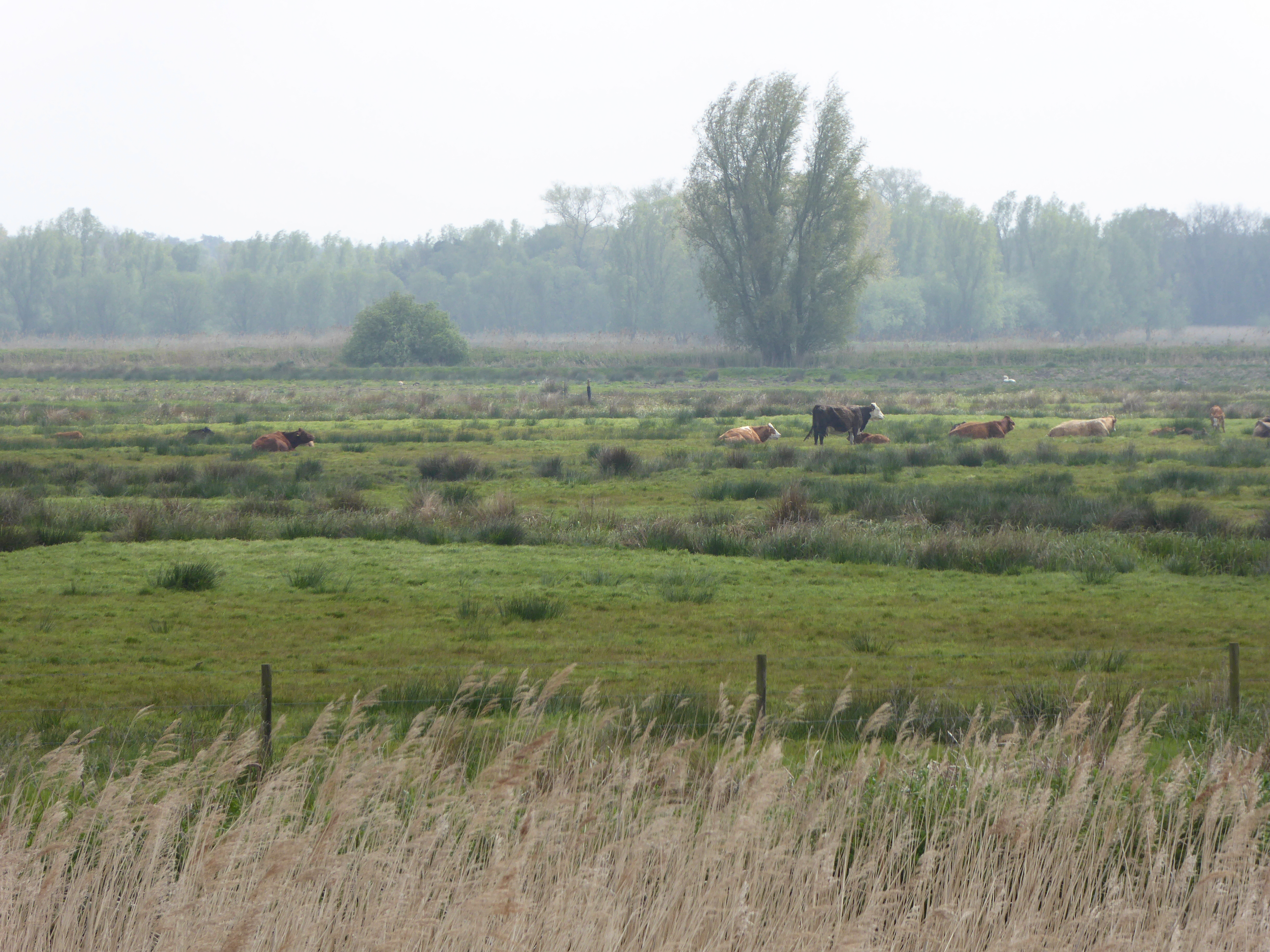 Castle Marshes is a biological Site of Special Scientific Interest west of Lowestoft in Suffolk. It is managed by the Suffolk Wildlife Trust.